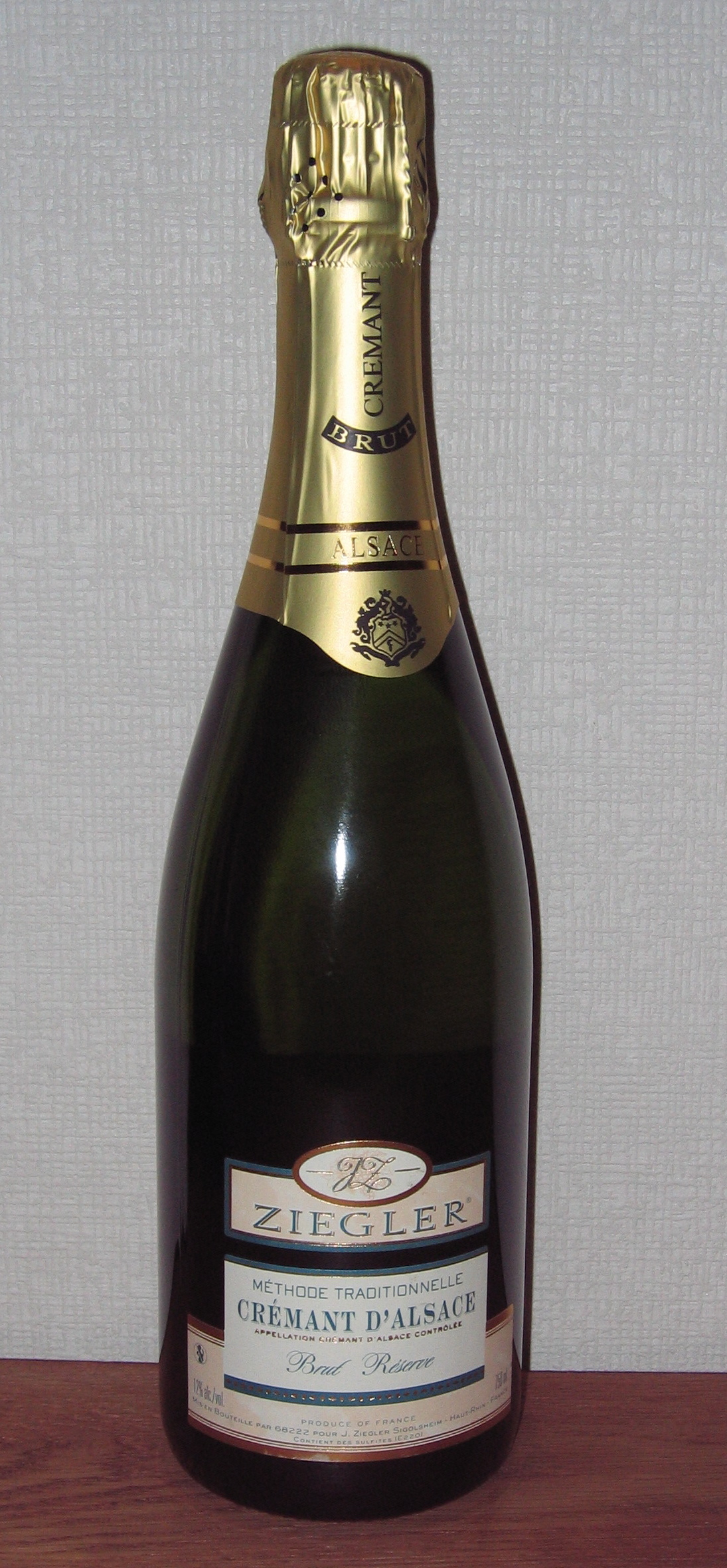 Bottle of Crémant d'Alsace (a sparkling wine) from J. Ziegler, Sigolsheim